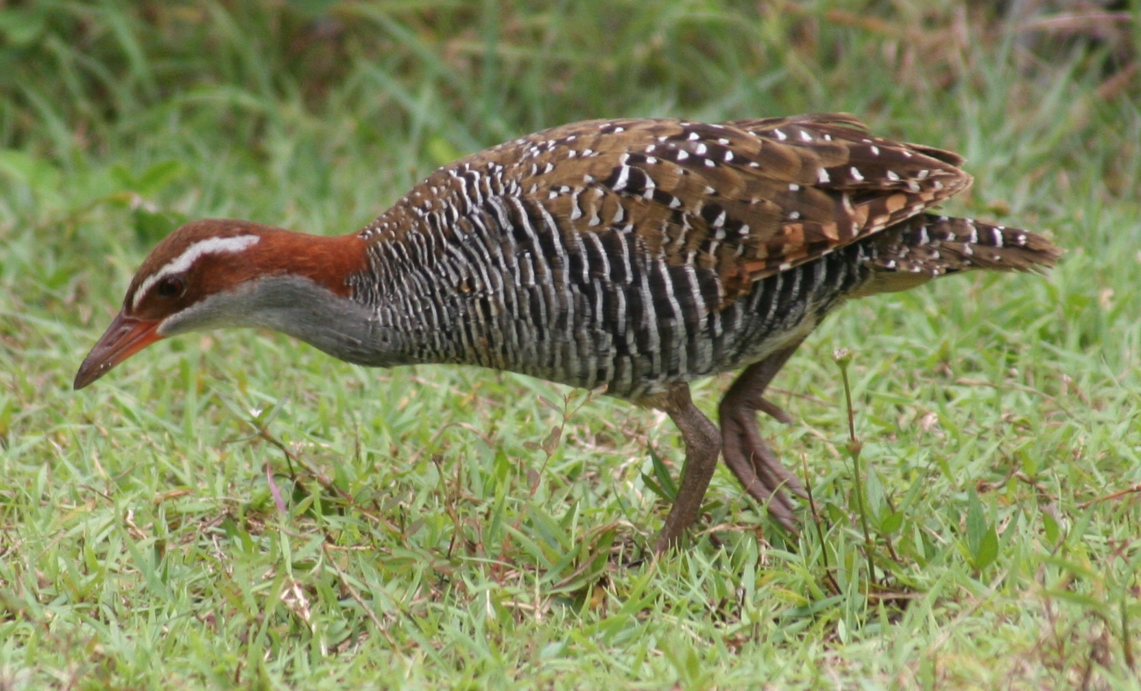 Buff-banded Rail, Gallirallus philippensis ecaudata, Fafa island, Tonga